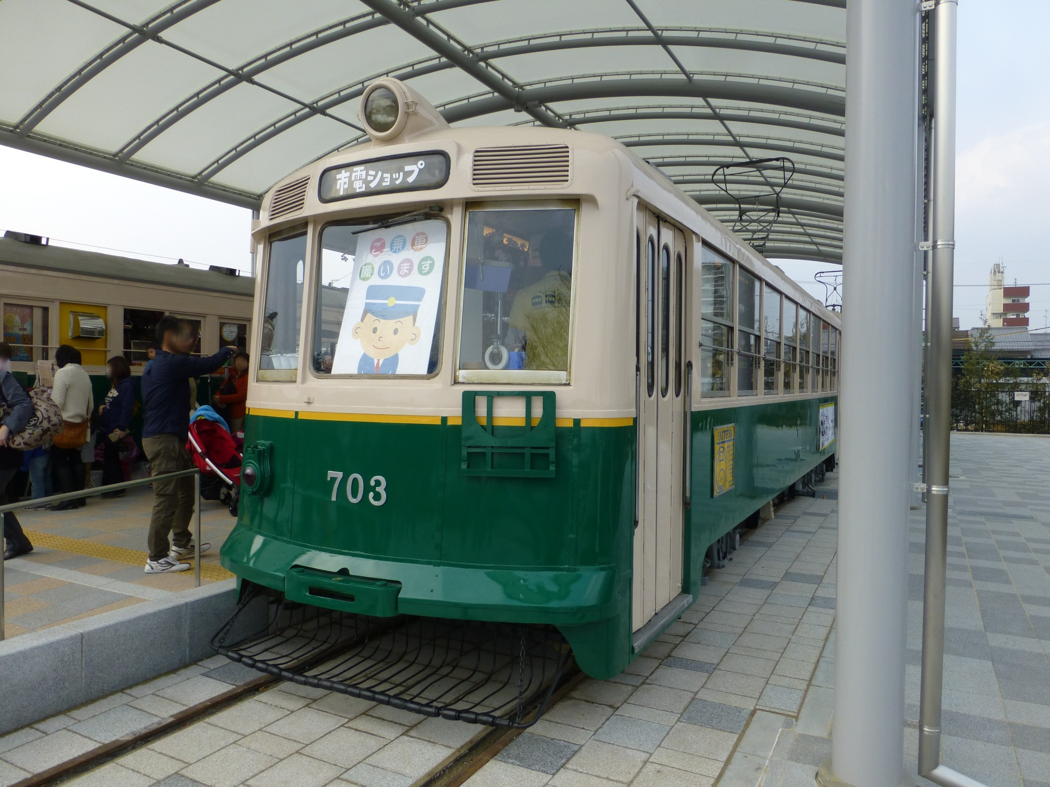 Kyoto Municipal Tramway 703 of type 700, preserved at Tramway Square in Umekoji Park.